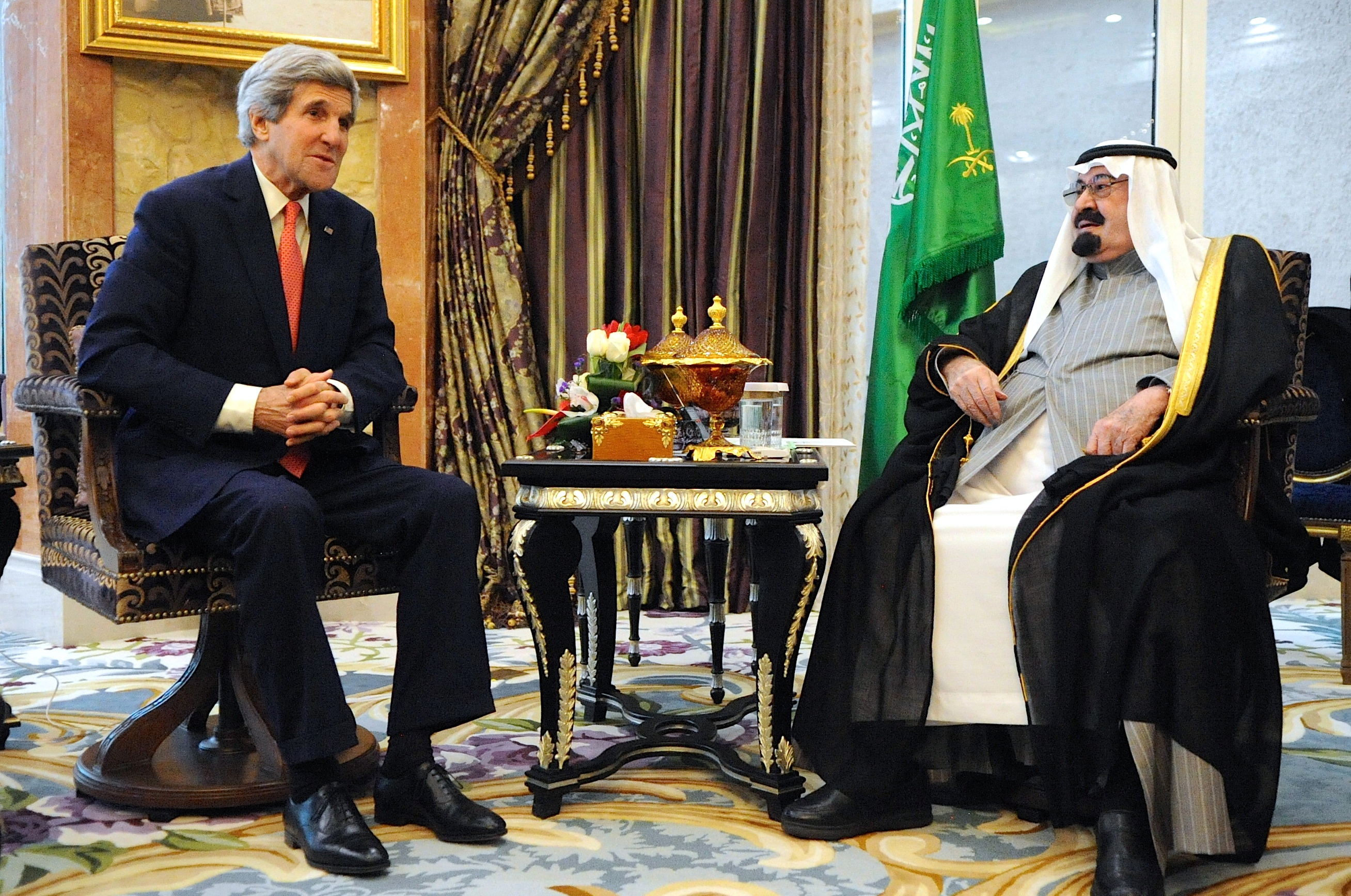 US Secretary of State John Kerry meets with the King of Saudi Arabia, Abdullah bin Abdulaziz Al Saud.